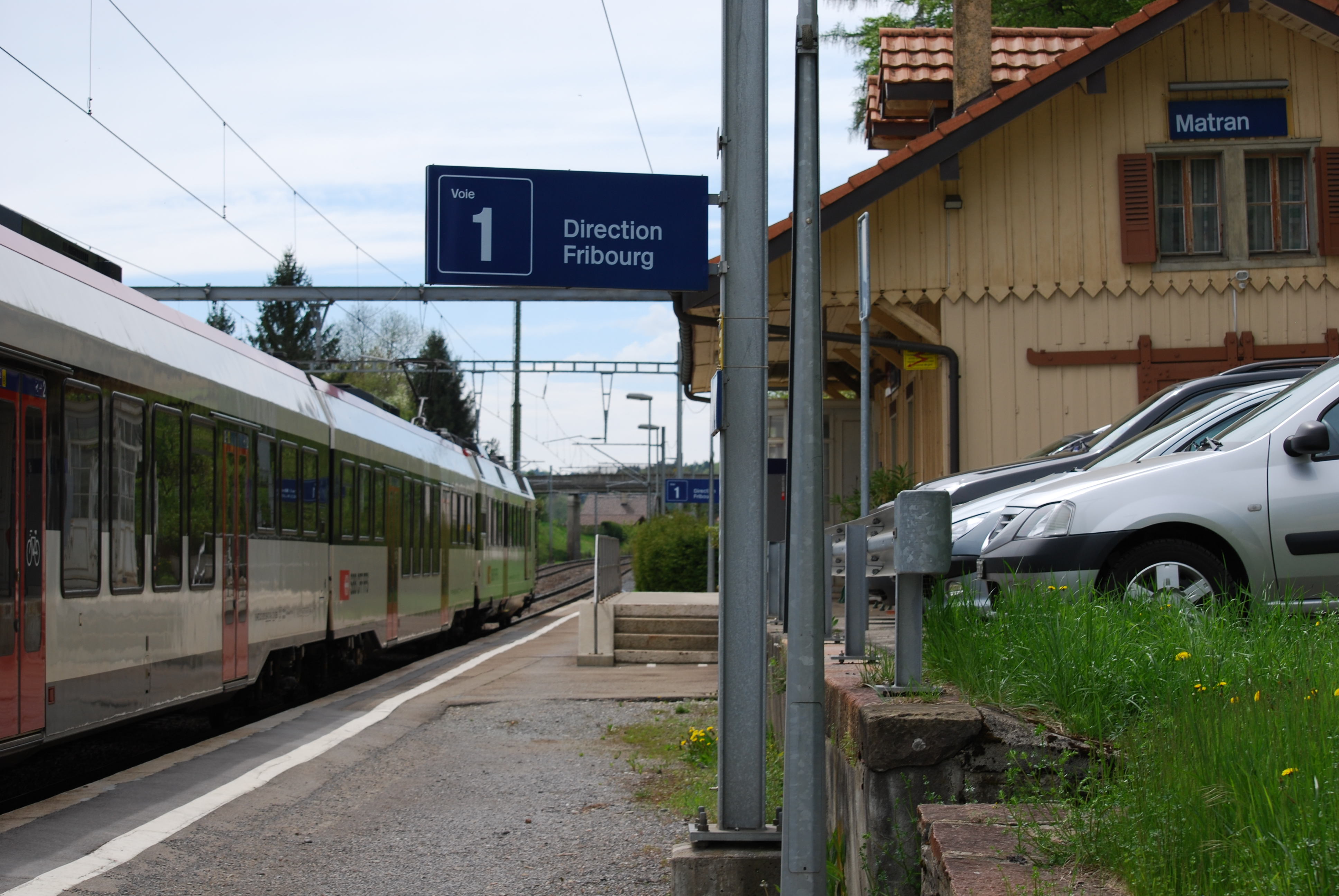 Trainstation of Matran, Matran, canton of Fribourg, Switzerland